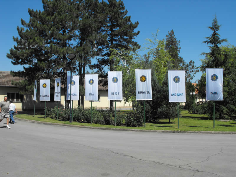 Street at Rimski Sancevi.